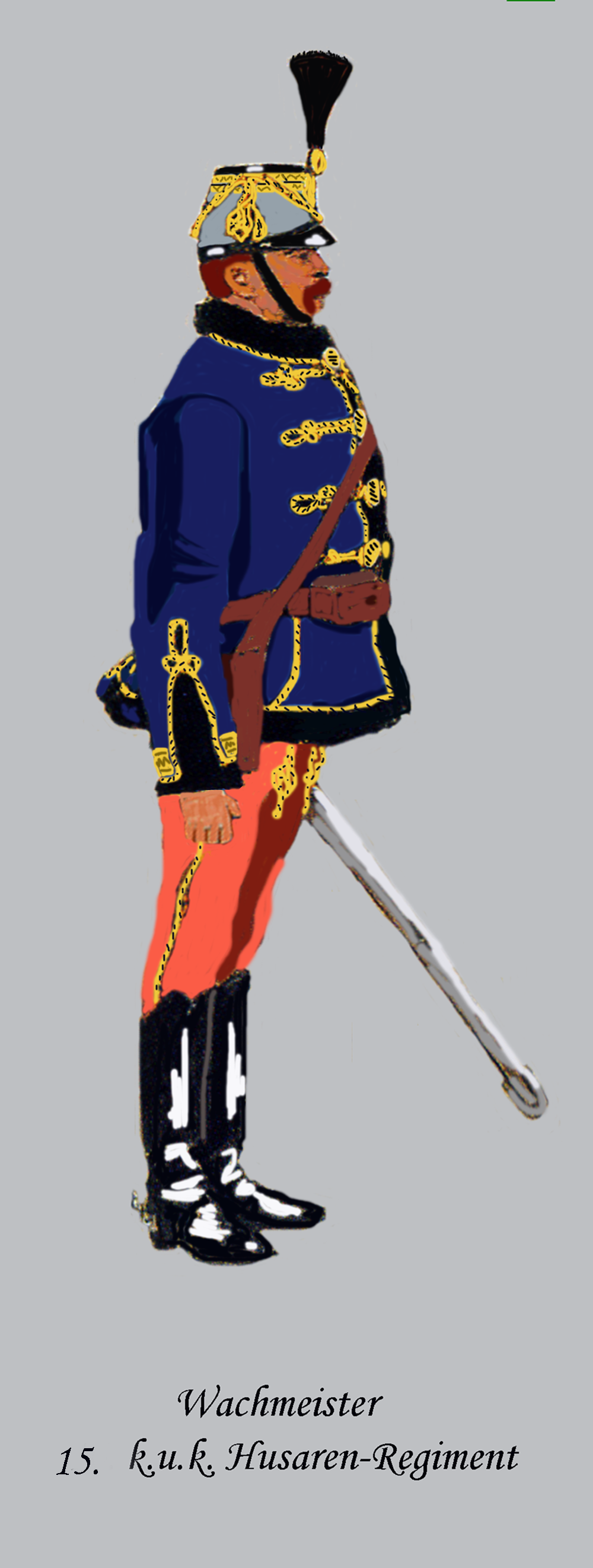 Winter-style Uniform of an Wachtmeister (Master-Sergeant) of the Austro-Hungarian 15th Hussars Regiment – worn until about 1916